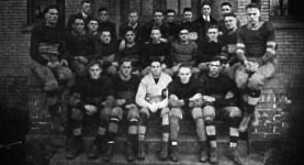 The 1916 Geneva College football team. Back Row—Glover (Grad. Mgr.), Elliott, Stringer, Bradley, Hemphill, Boyd, Metheny (Coach), Duncan. Middle Rom—Perrott, Sterrett, Smith, Fee, Stewart, Steele, McCracken, Jameson. Front Row1—McElvey, Hamer, Wilken, Hicks (Capt.) Dodds, Tweed, Miller.